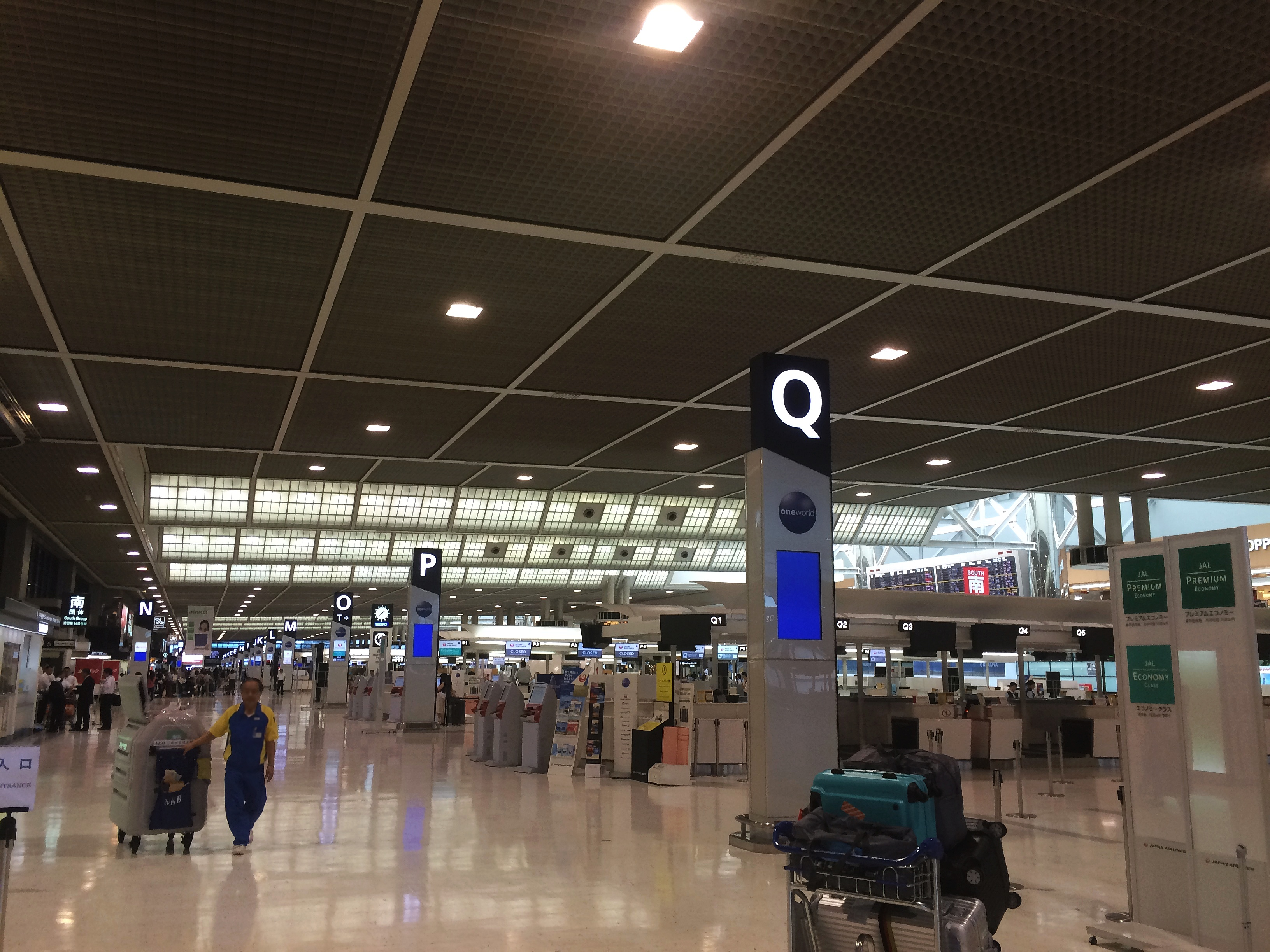 Narita International Airport Terminal 2 (Main Bldg, 3F), the airline check-in counter